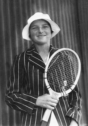 Miss Thelma Coyne was matched against Mrs Molesworth, Queensland Lady Champion, in an exhibition singles match.